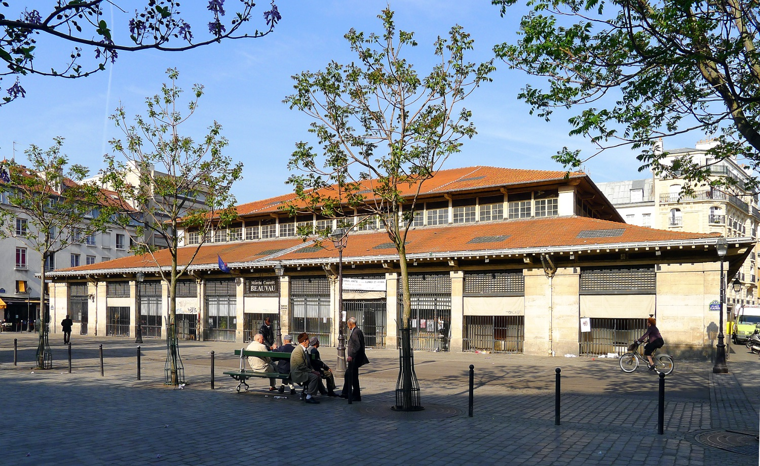 Aligre place - Paris